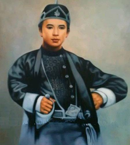 A portrait of Phra Chonlathan Vinnicchai (Chun), a Thai noble of Vietnamese descendant who serves as an official during Rama V's reign. Displayed at The Wat Samanaanam Borihan, Bangkok, Thailand.